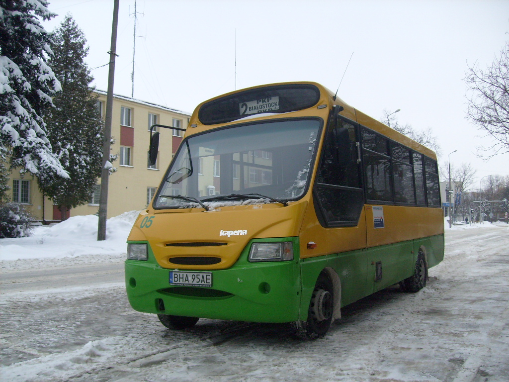 Kapena Thesi City bus (#05) in Hajnówka, Poland. Built 2006, ZKM Hajnówka operator.